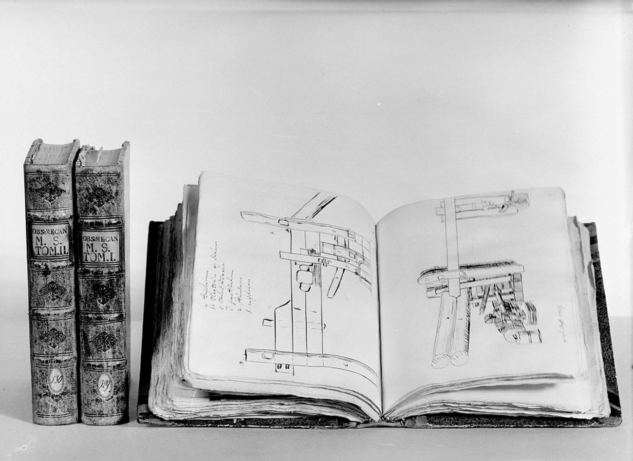 Carl Johan Cronstedt’s sketchbooks and notebooks from 1729